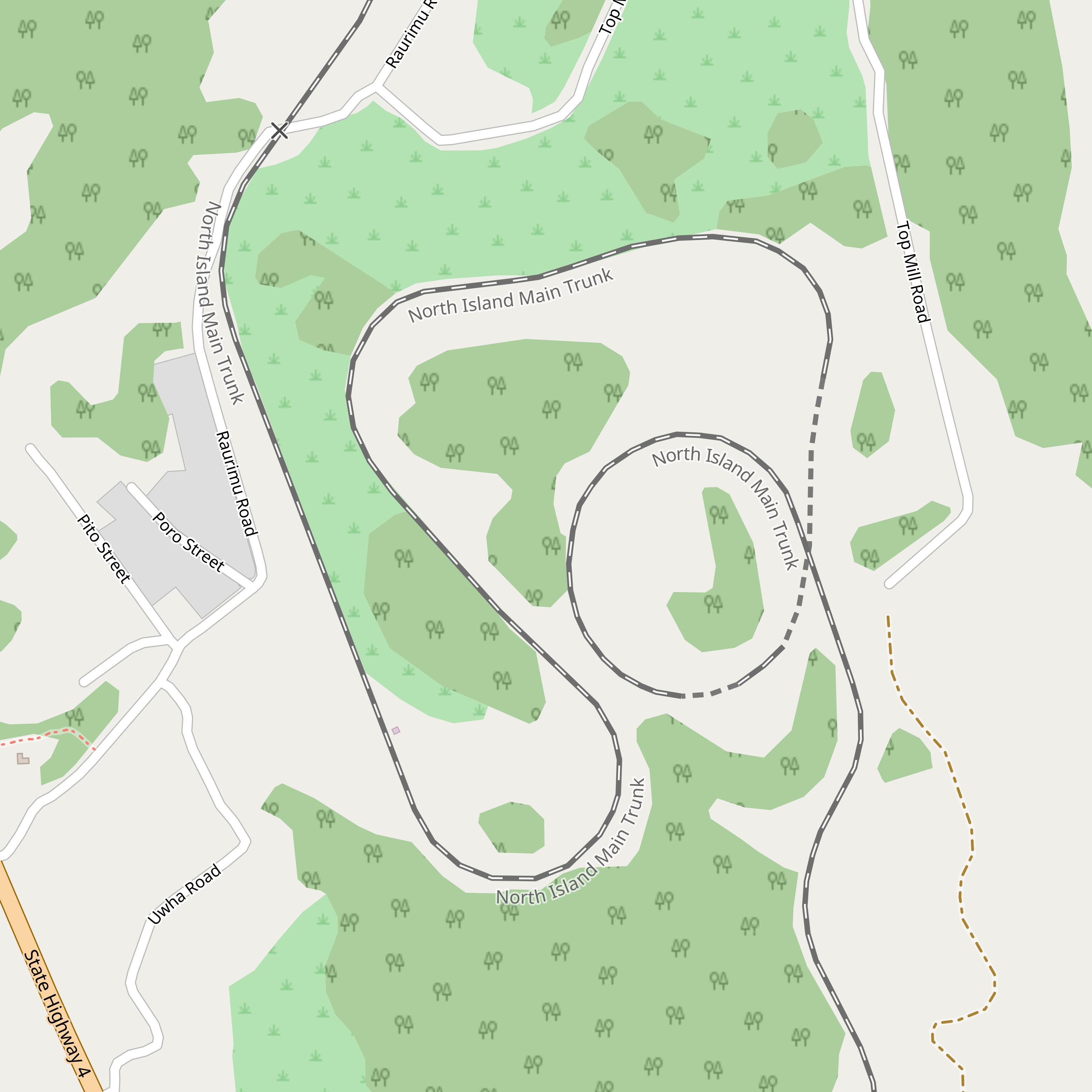 Map of the Raurimu Spiral, based on OpenStreetMap data This map may be incomplete, and may contain errors. Don't rely solely on it for navigation.